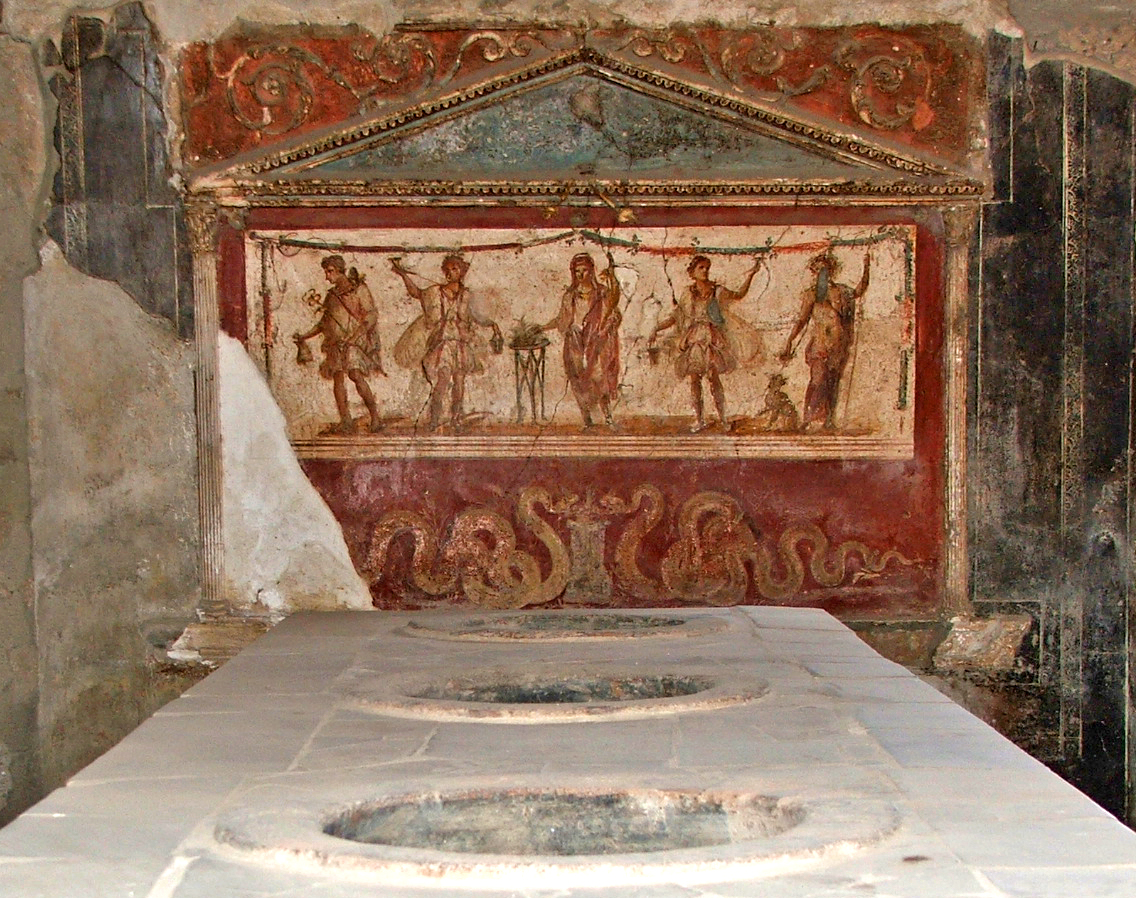 A fresco from the thermopolium of Lucius Vetutius Placidus in the city of Pompeii, depicting the spirit (genius) of the house central, flanked by Lares and Penates with Mercury on far left, Bacchus far right.